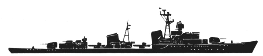 Profile of a Soviet Skoryy-class (Project 30bis Smelyy) destroyer.